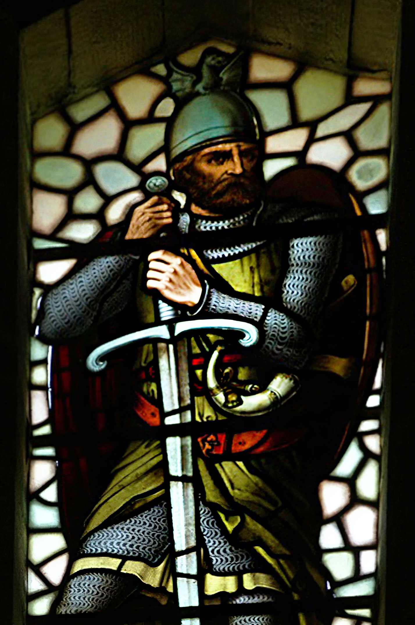 Wallace Monument, Stirling, Scotland - stained glass window, William Wallace